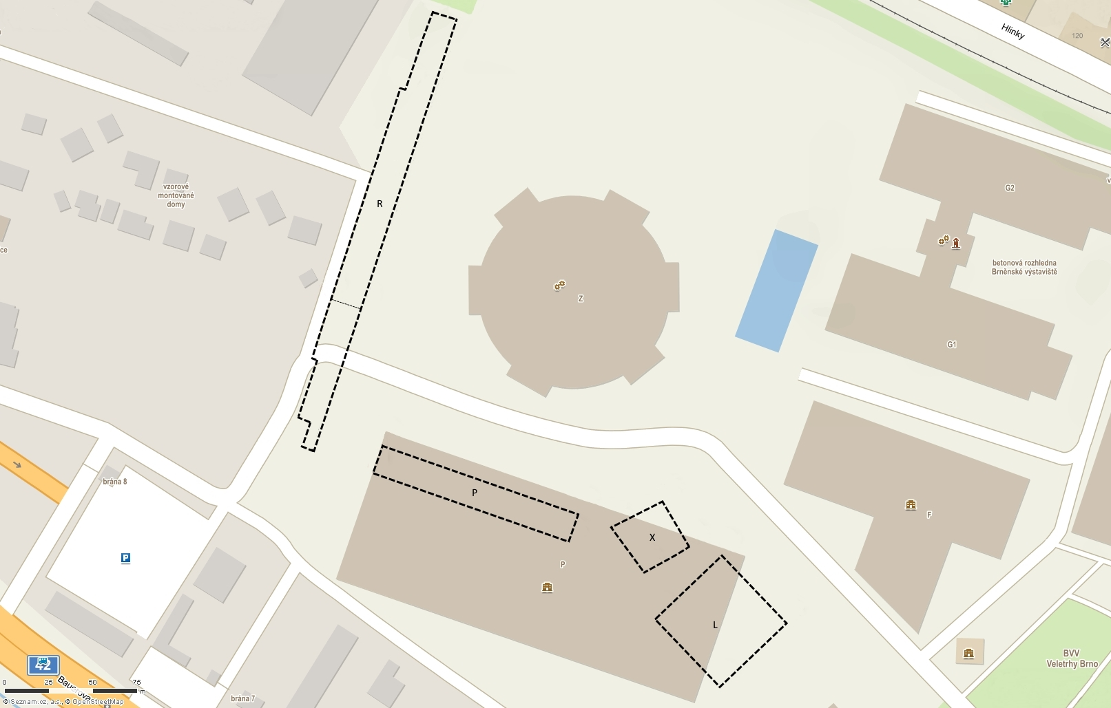 Map of the western part of the Brno Exhibition Grounds with contours of the demolished pavilions R, P, X and L. The southern part of pavilion R (below the narrow dashed line) was demolished in 1990s, the rest collapsed in 2010. Pavilions P, L and X were demolished in 2008 to make space for the new Pavillion P.